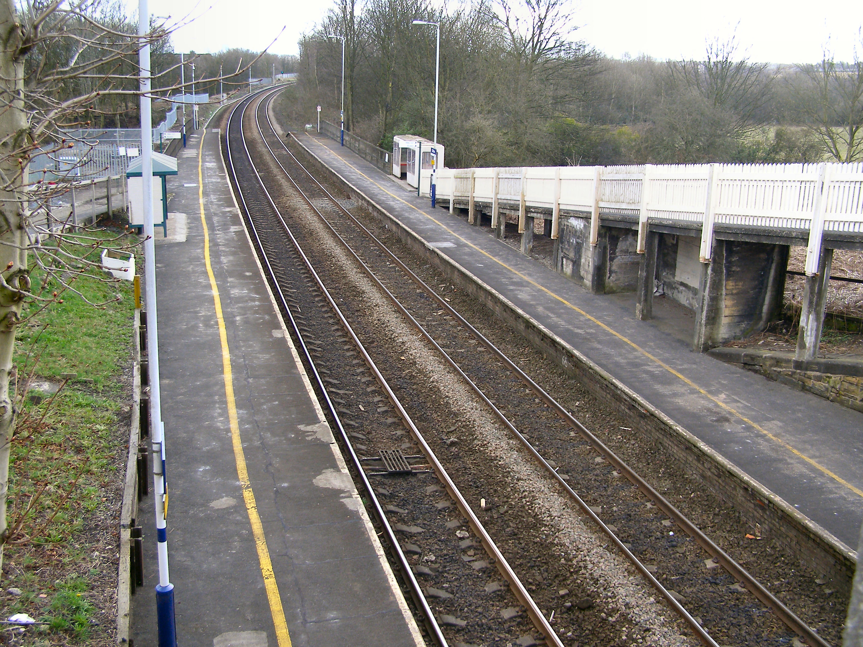 Clifton Station Looking south, from Pepperhill Bridge